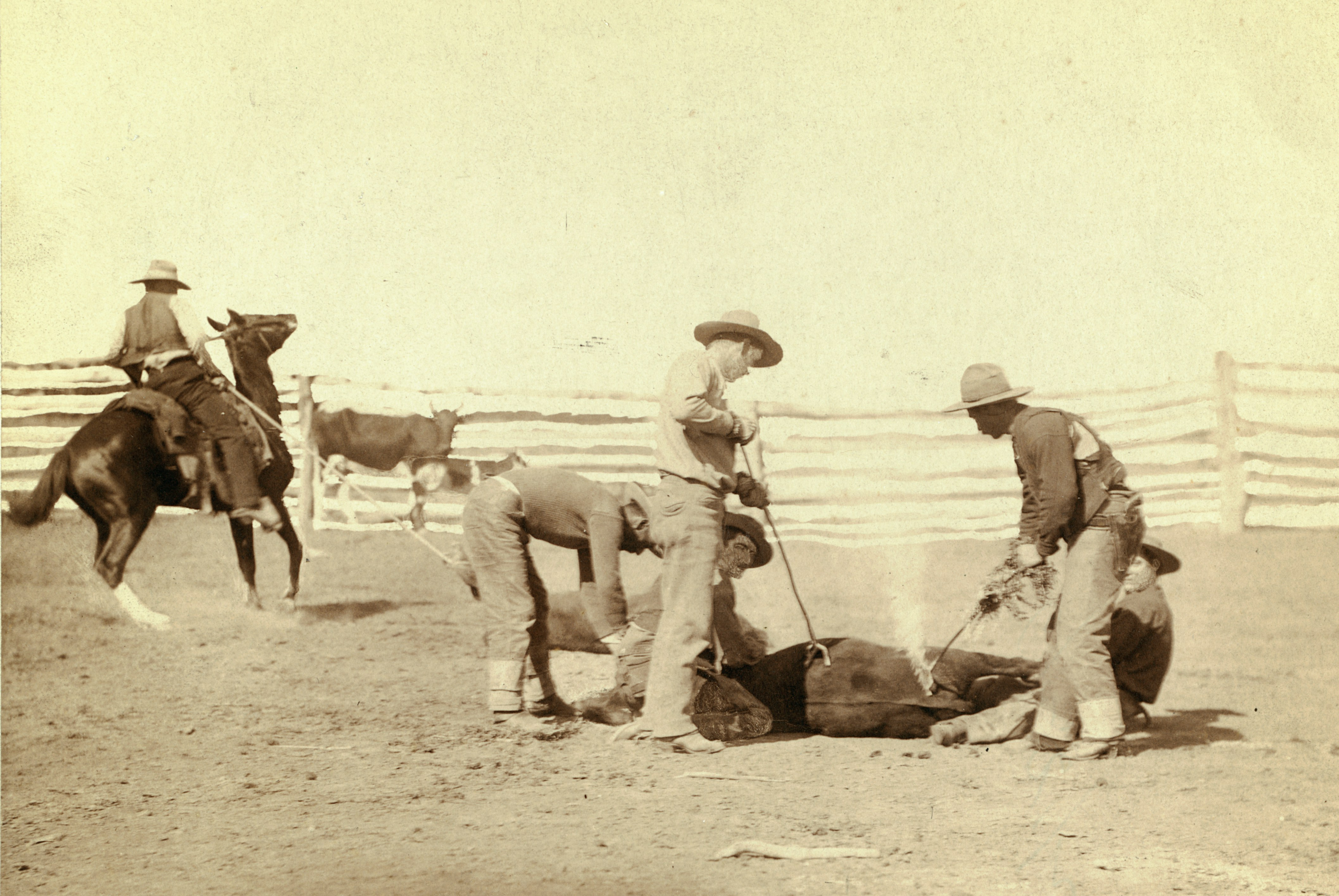 A centar branding a calf in fenced area. South Dakota, 1888.